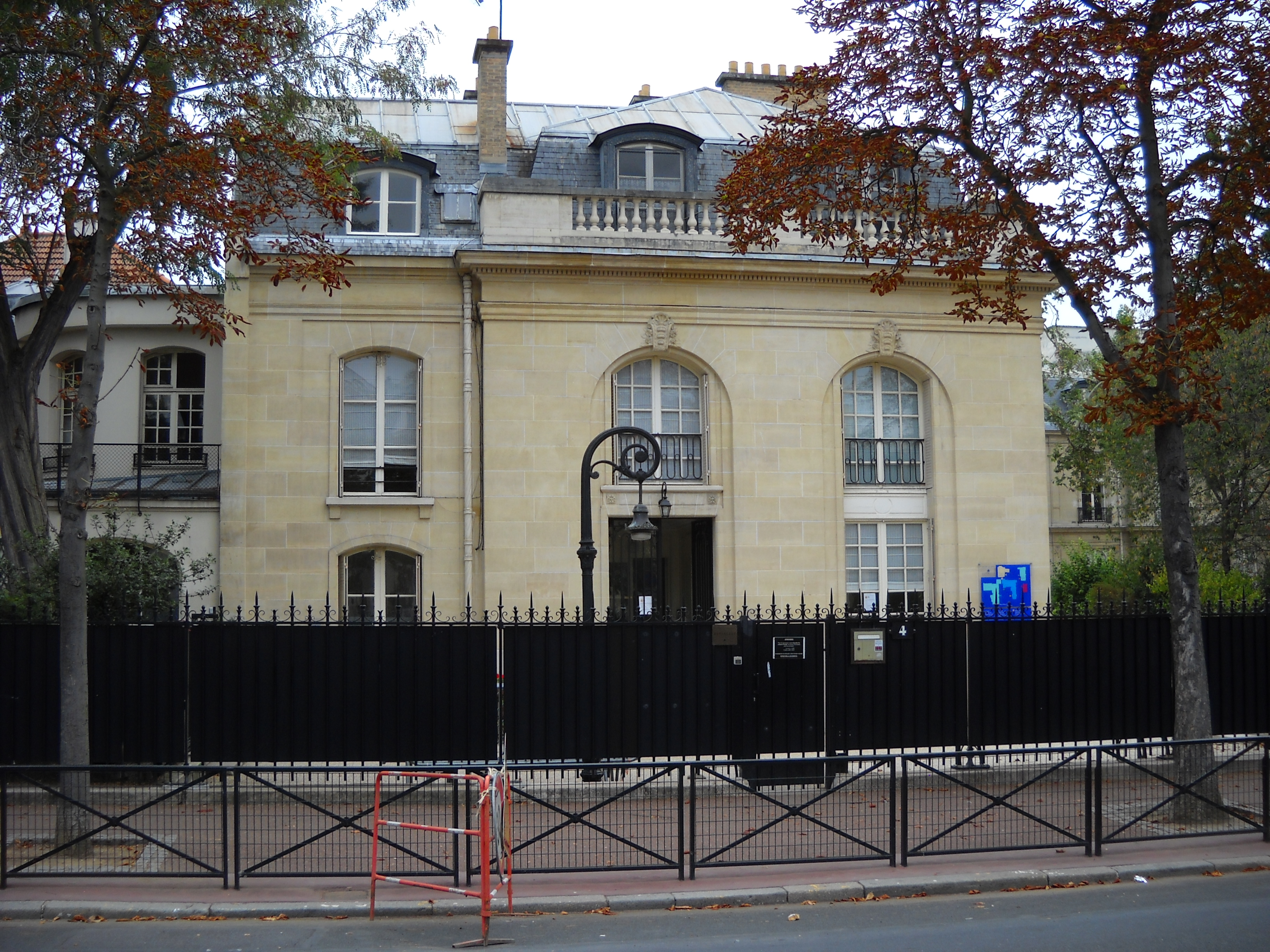 Dupanloup school, in Boulogne-Billancourt, Hauts-de-Seine, France.